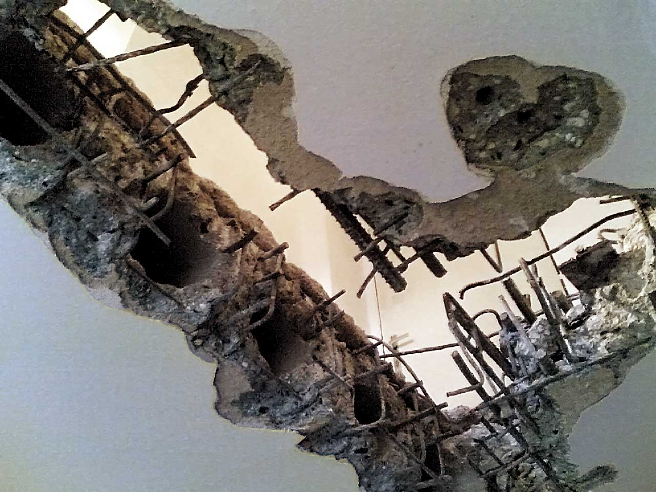 Hole in a coreslab, as seen from below, probably due to large kinetic energy impact.